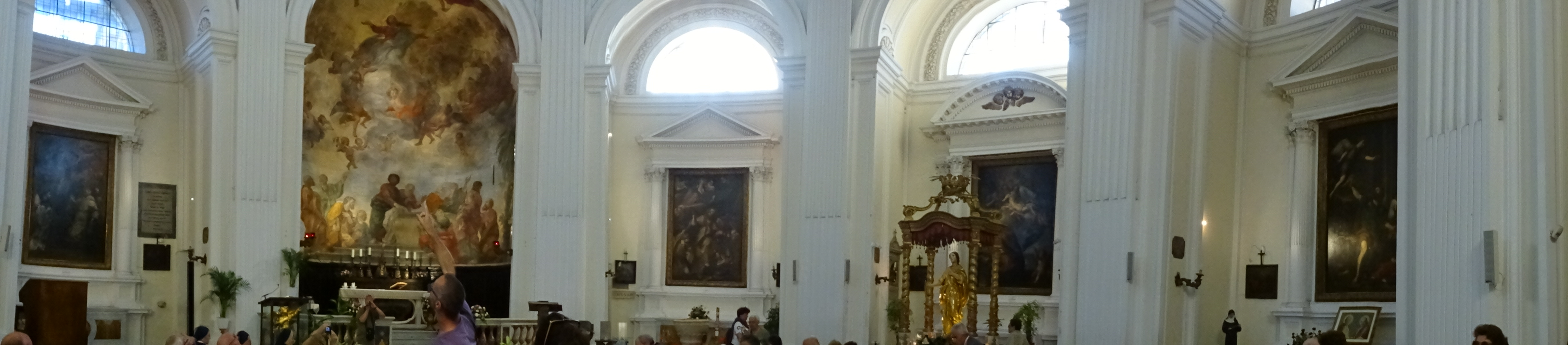 Church of Santa Maria Assunta and Cielo, Ariccia